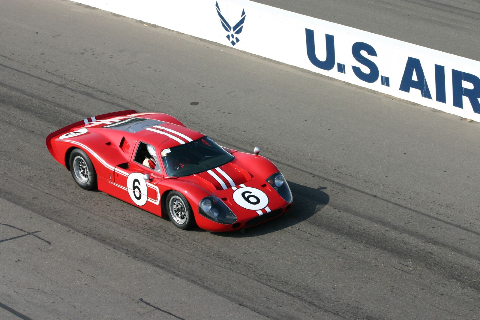 1967 Ford GT40 Mk IV at 2004 Sportscar Vintage Racing Association (SVRA) meeting in Watkins Glen